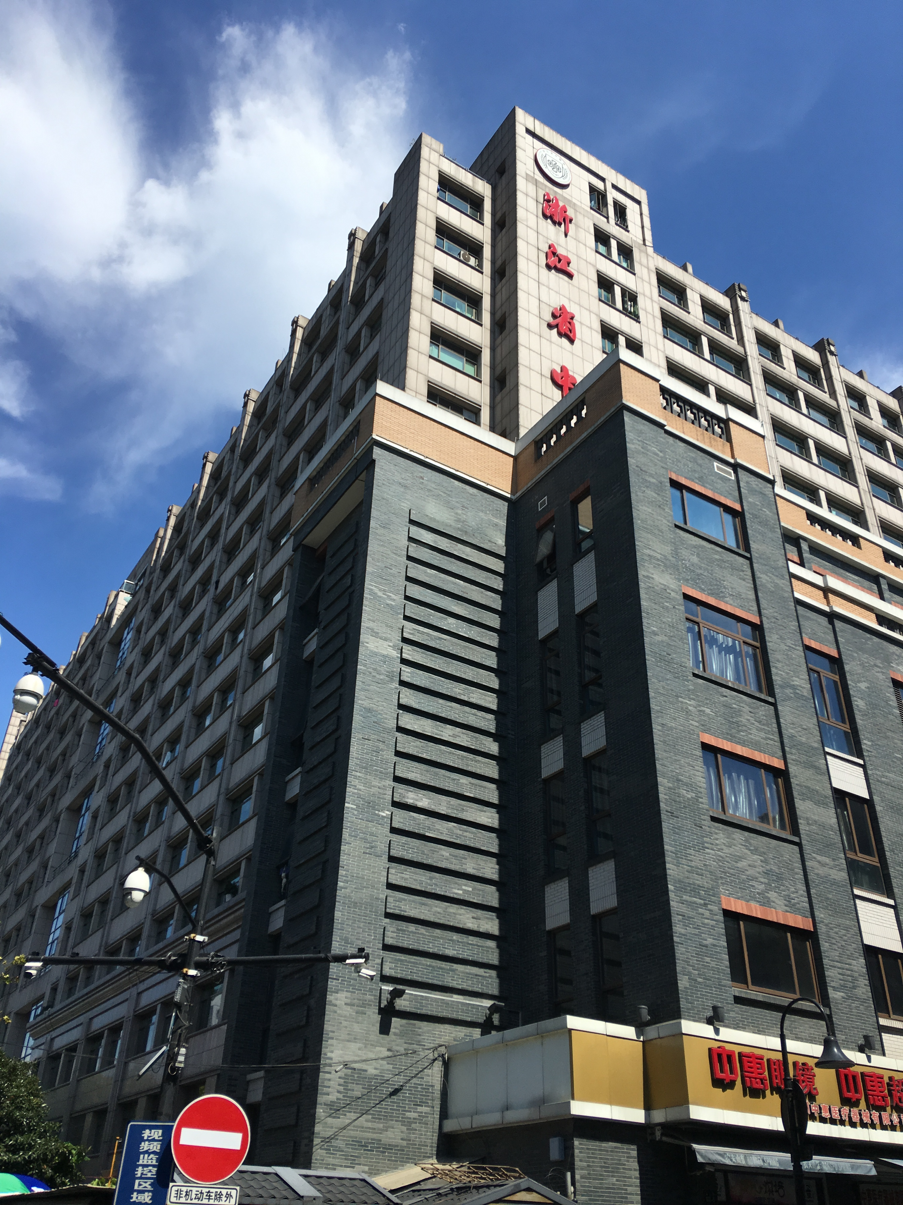 Traditional Chinese Medicine Hospital on the Wushan Road in Central Hangzhou.